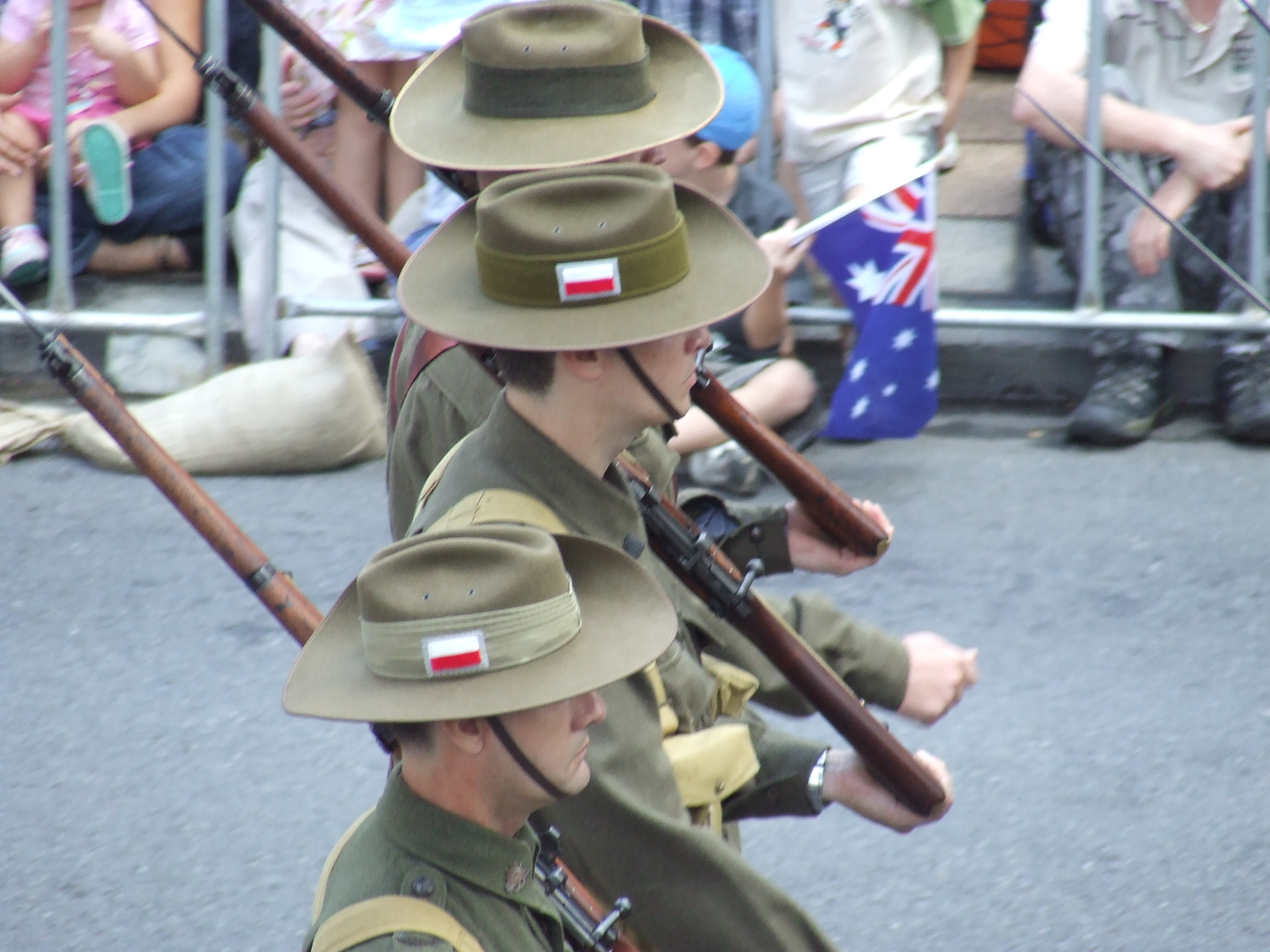 From this set of reports about Anzac Day 2007 at the Brisbane Is Home blog. You are free to use this photo for any reasons, including commercial reasons, but you MUST credit with a link if you use it on the Internet, or by printing the URL next to or on the photo if used away from the Internet.